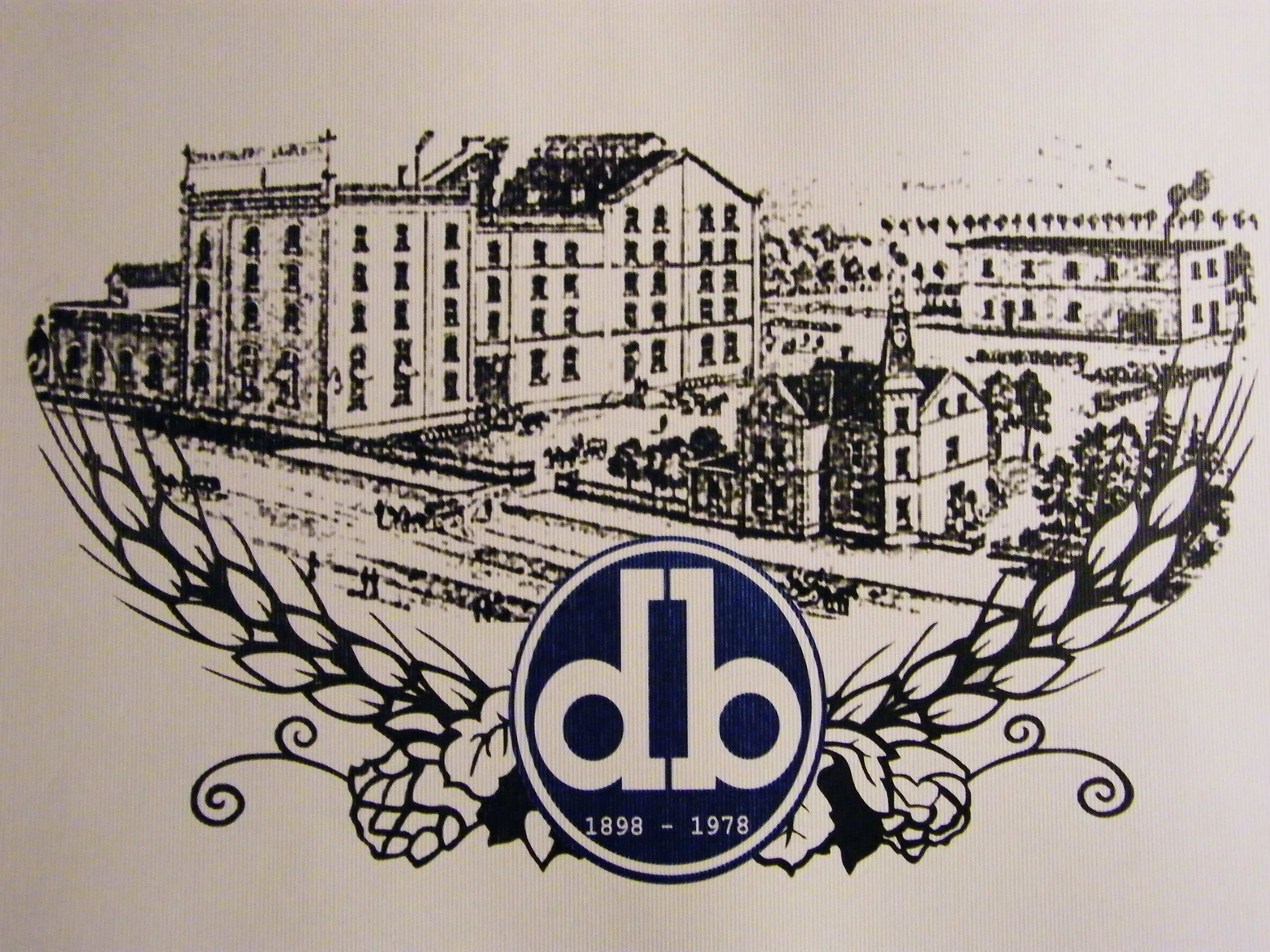 Created handmaded in 07/2009 from me now as photo maked by myself